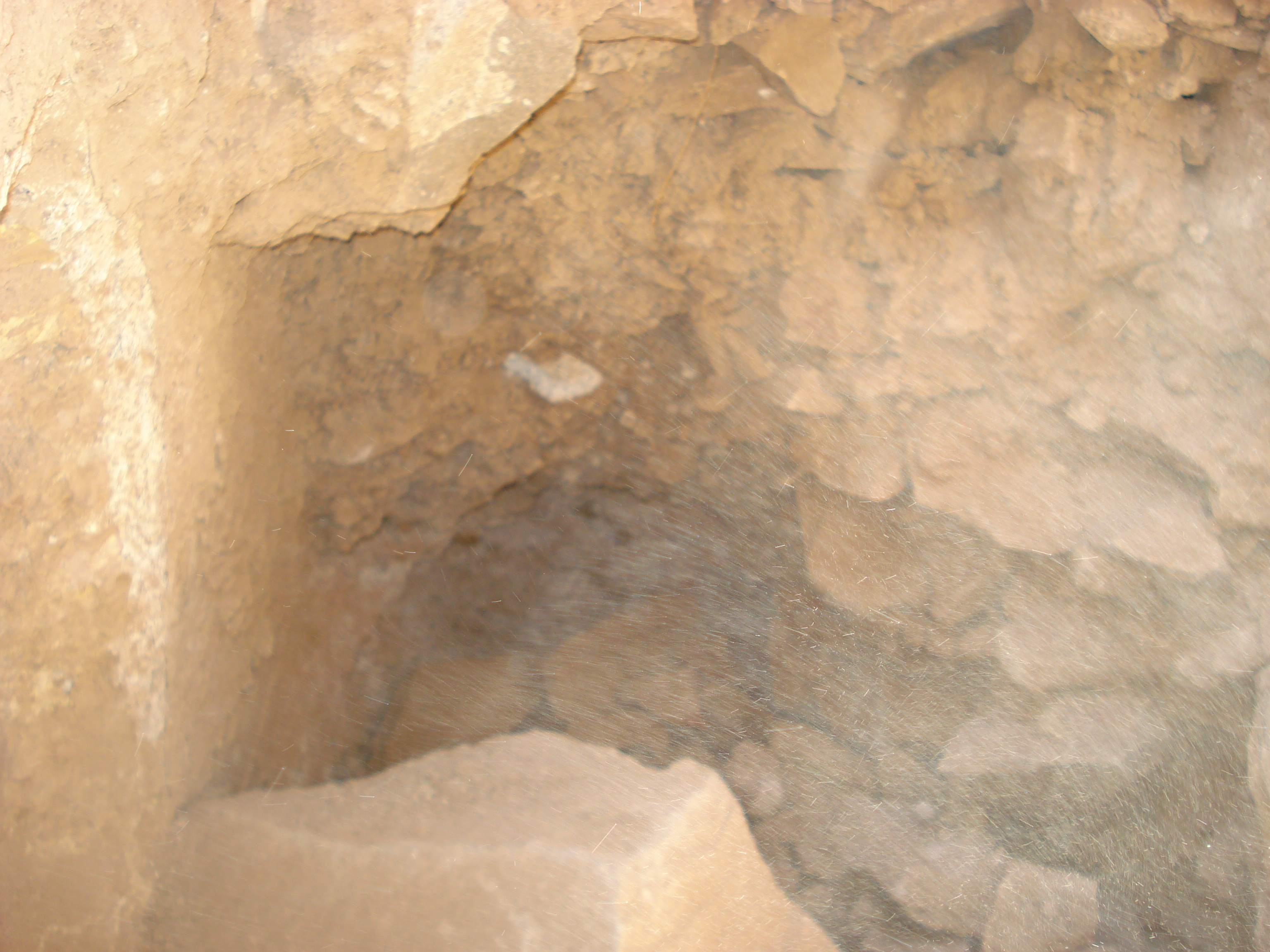 castle in zibad